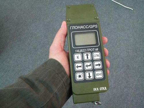 Author: Me